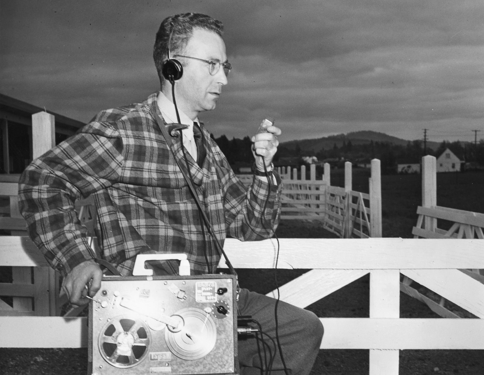 Original Collection: Harriet's Collection Item Number: HC2966 You can find this image by searching for the item number by clicking Want more? You can find more We're happy for you to share this digital image within the spirit of The Commons; however, certain restrictions on high quality reproductions of the original physical version may apply. To read more about what “no known restrictions” means, please visit the or contact staff at the OSU Special Collections & Archives Research Center for details.